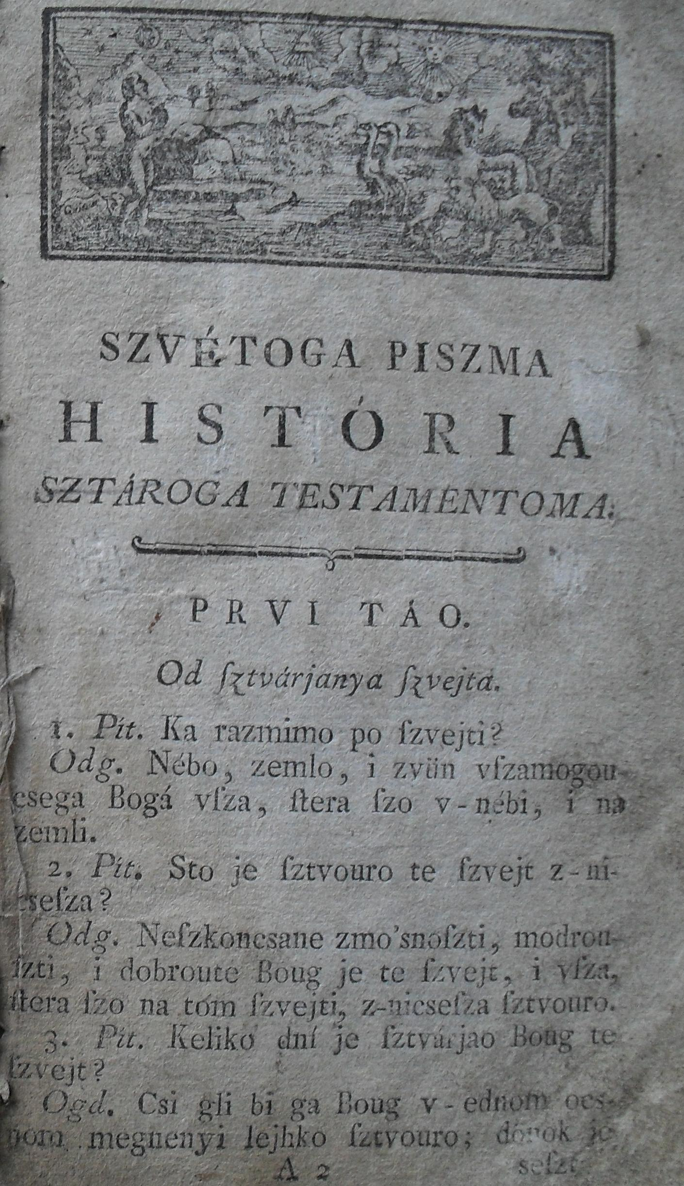 The first page of the prekmurian Sztároga i Nouvoga Testamentoma szvéte histórie krátka Summa from 1796. By Miklós Küzmics.